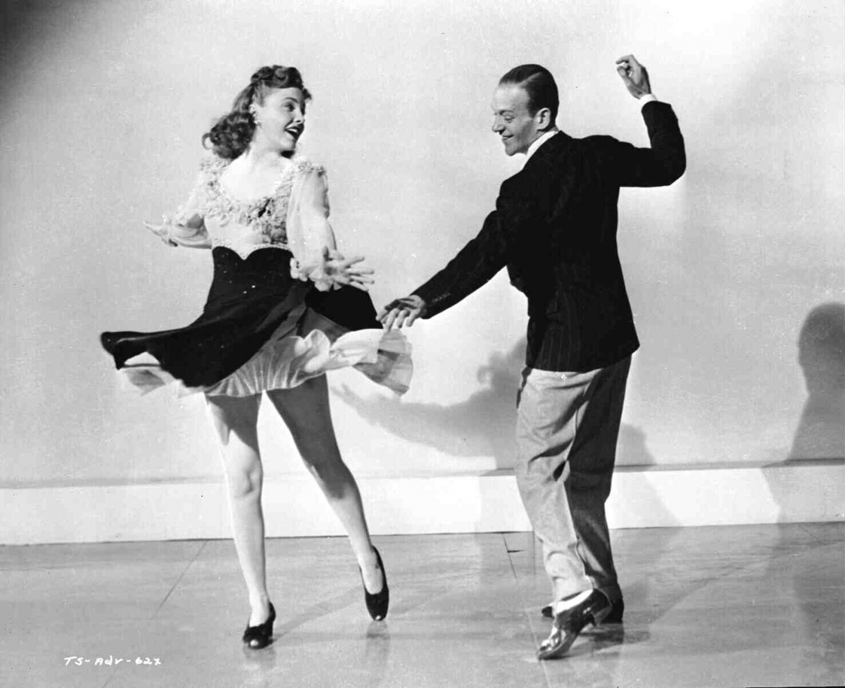 A promotional photo